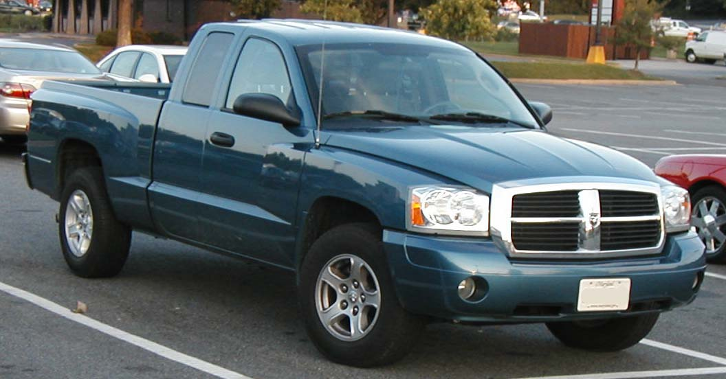 2005-2007 Dodge Dakota extended cab photographed in USA.